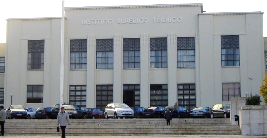 Central pavillion of Instituto Superior Técnico, on Alameda, Lisbon